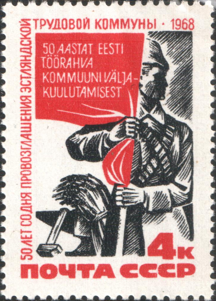 USSR stamp: Worker with Red Flag, Hammer, Anvil and Sheaf. Series: 50th Anniversary of Commune of the Working People of Estonia (established 1918.11.29)